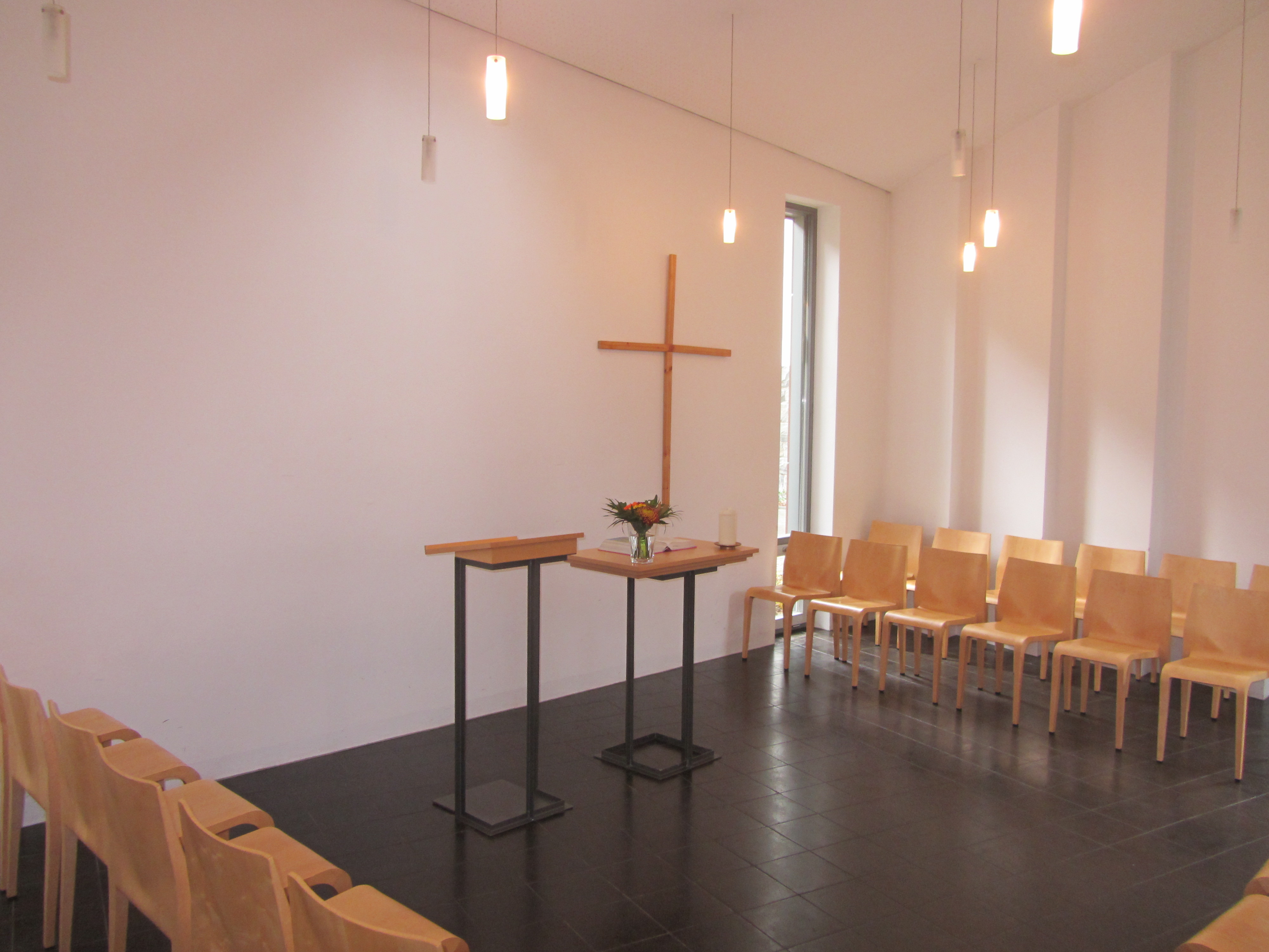 Chapel of the Protestant University Wuppertal/Bethel.